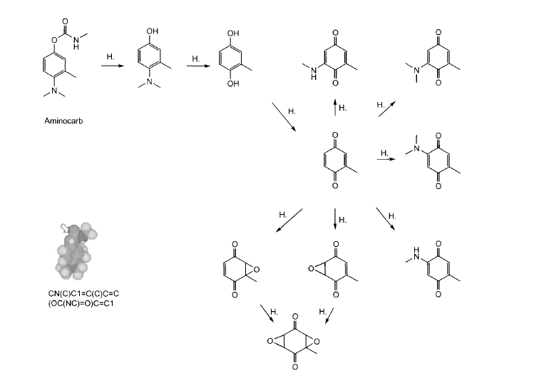 This is the hydrolysis of the compound aminocarb.